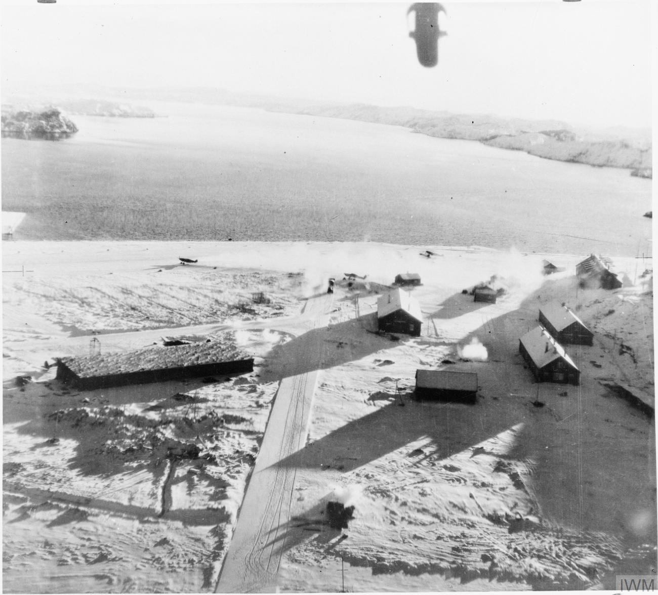 No. 114 Squadron RAF bombers attacking the German airfield at Herdla before the Operation Archery raid against German-occupied Norway. The tail-wheel of the aircraft taking the photo is visible at the top of the image. Several Luftwaffe planes are visible on the airfield, together with rising clouds of snow particles thrown up by shrapnel and machine-gun fire..